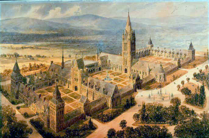 William Burges's original plan for Trinity College campus, Hartford, Connecticut, USA.